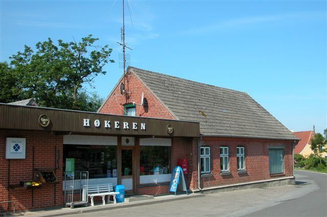 The drugstore in Skovby